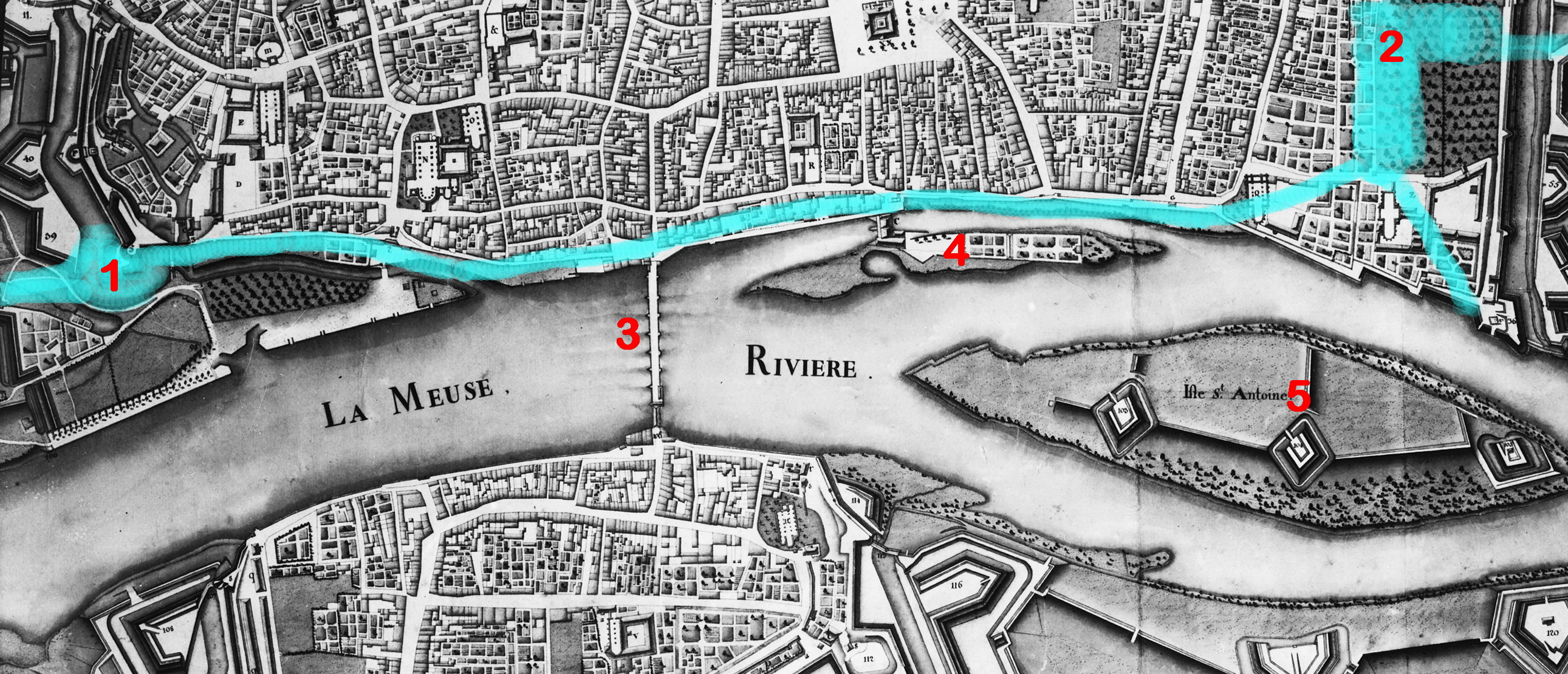 Detail of a map of Maastricht, Netherlands, of 1749 by French military engineer Jean-Baptiste Larcher d'Aubencourt (colours added by Kleon3). The map was used to build the Maquette of Maastricht (1752), now in the Musée de Beaux Arts in Lille, France. Here the central section of the city along the river Meuse is shown. Indicated in blue (between 1 and 2) is the Canal Liège-Maastricht, constructed between 1847 and 1850. Zwanengracht (near the roundel De Vijf Koppen) Bassin (connecting to Zuid-Willemsvaart) Sint-Servaasbrug (the medieval bridge) Moleneiland (demolished around 1894) Sint-Antoniuseiland (demolished 1885-1895)